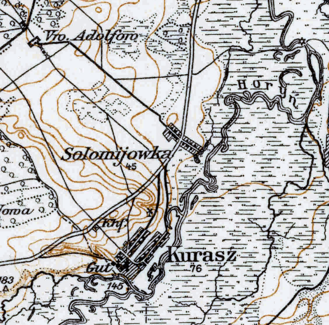 Kurash on the map "Karte des Westlichen Russlands", T 36, 1917. According to Kujawsko-Pomorska Digital Library the map is in the public domain.